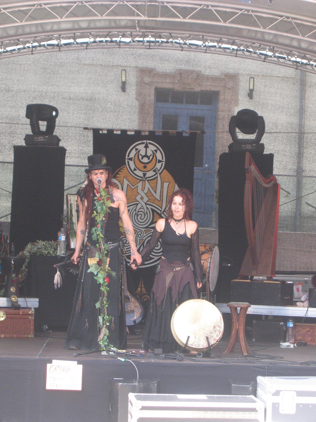 Jenny and Sic from Omnia at Anno Domini 1408 in Luxembourg city